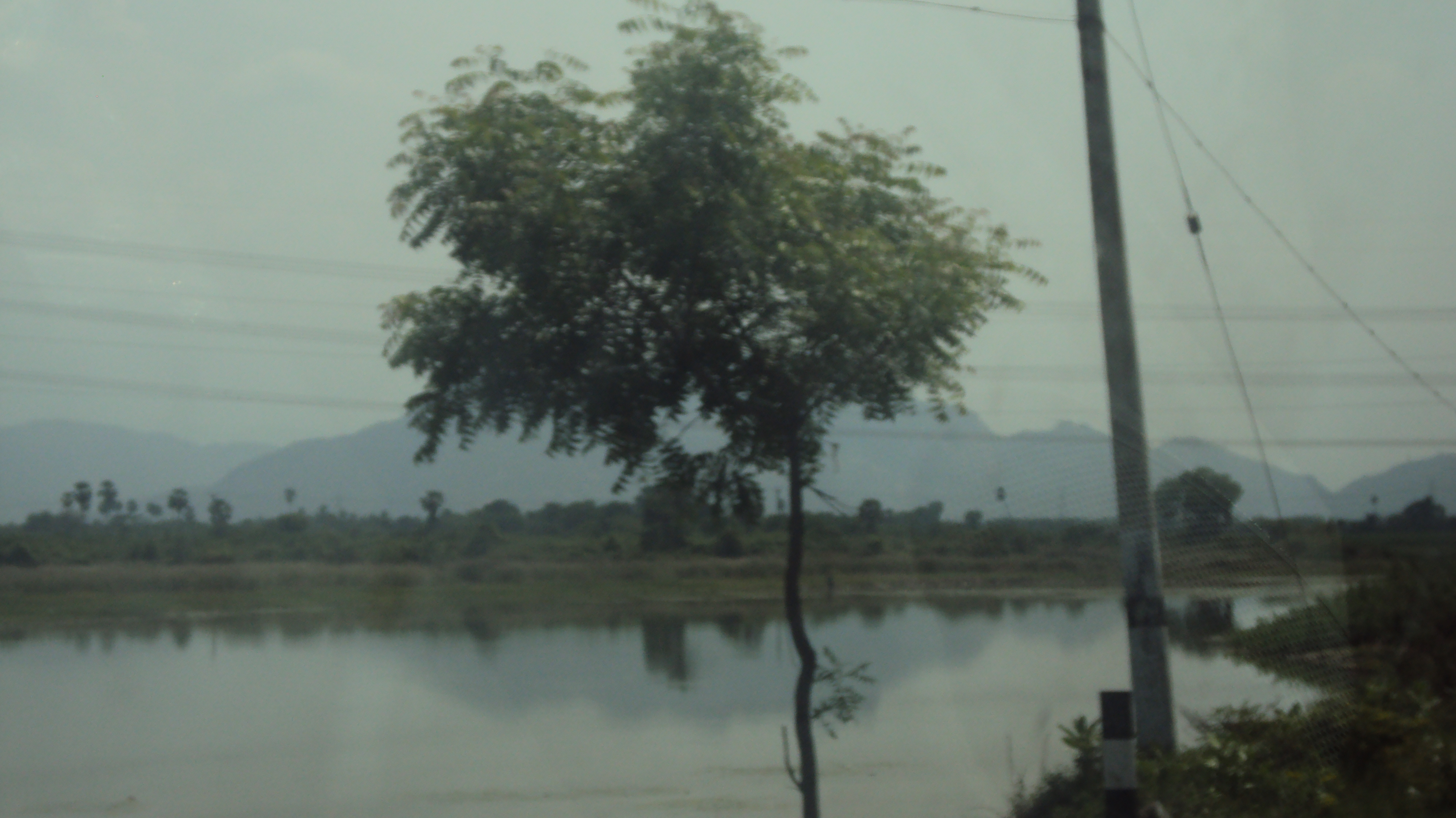 Podhigai (பொதிகை) mountain's shadow (நிழல்) falling on Poovankurichi lake.